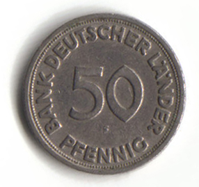 German 50 Pf. Coin ("Bank Deutscher Länder")